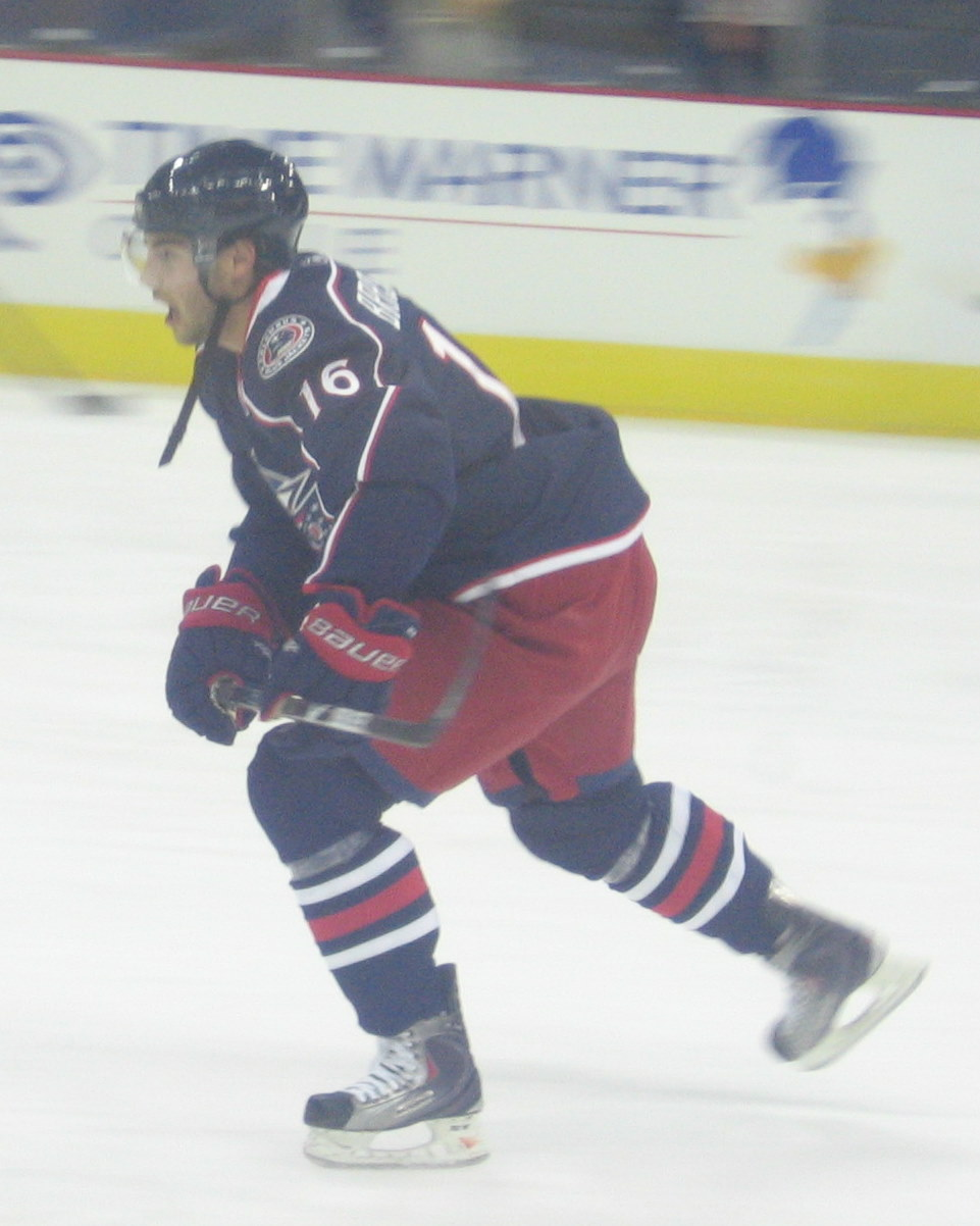 Derick Brassard of the Columbus Blue Jackets prepares for a pre-season game against the Minnesota Wild at Nationwide Arena.